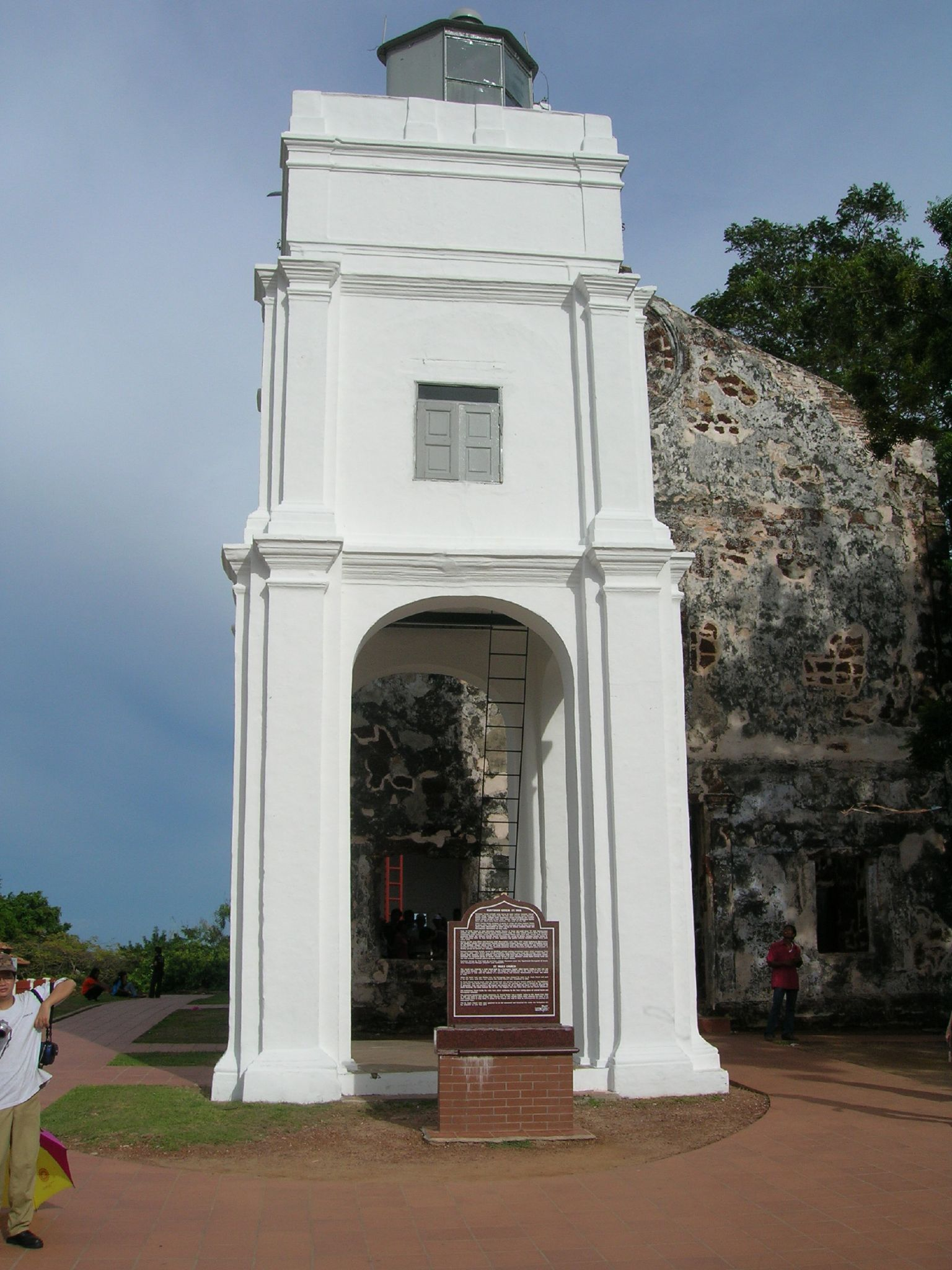 The Malacca Light, as seen on the summit of St. Paul's Hill afront the ruins of St Paul's Church/St Francis Xavier's Church (background) in Malacca Town, Malaysia.